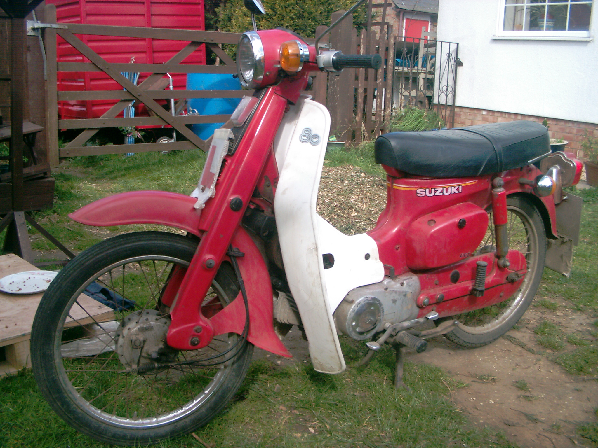 My Suzuki FR80. Feel free to do whatever you want with it, so long as you do not insult this great machine.